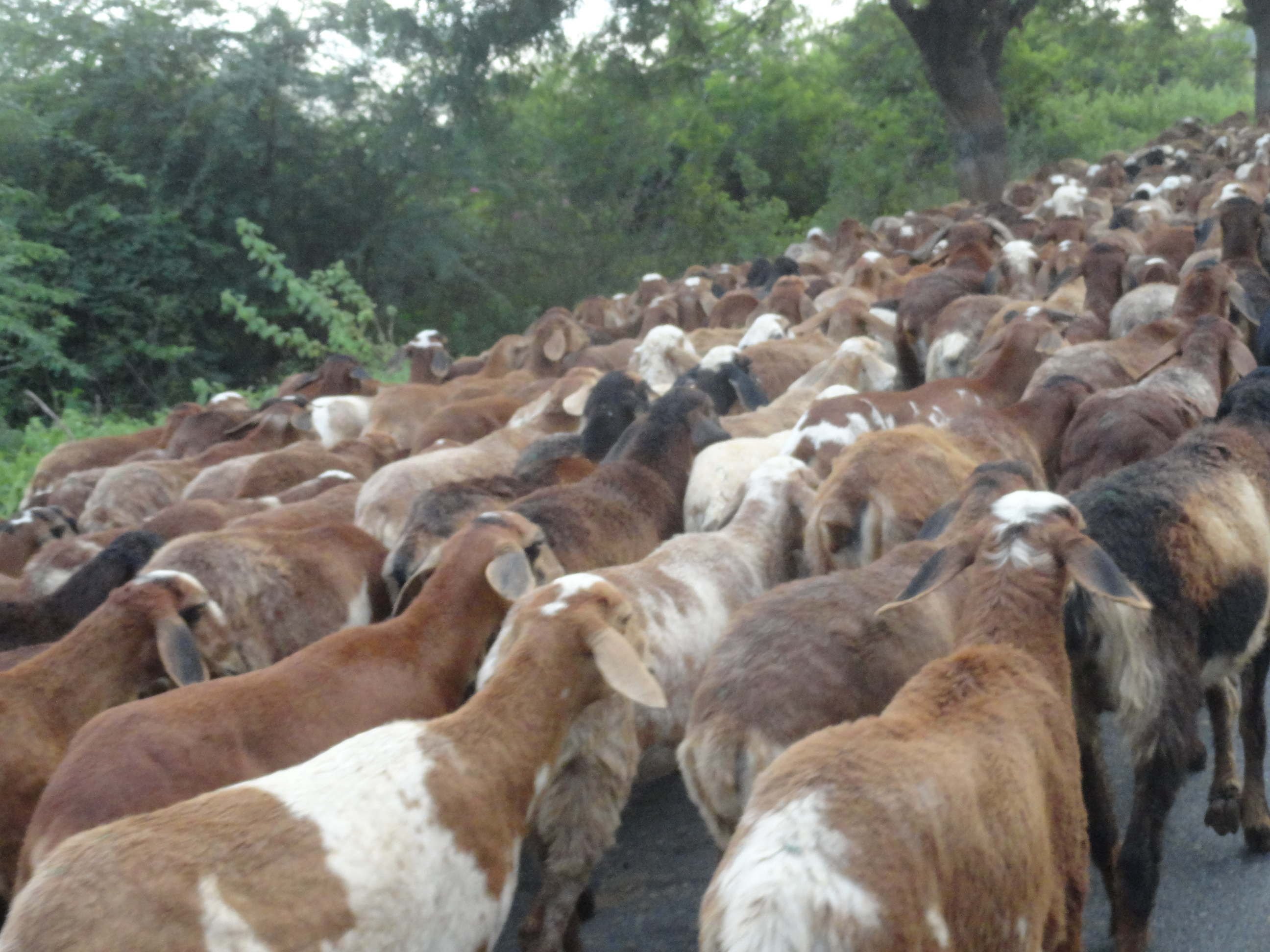 sheep herd on the road